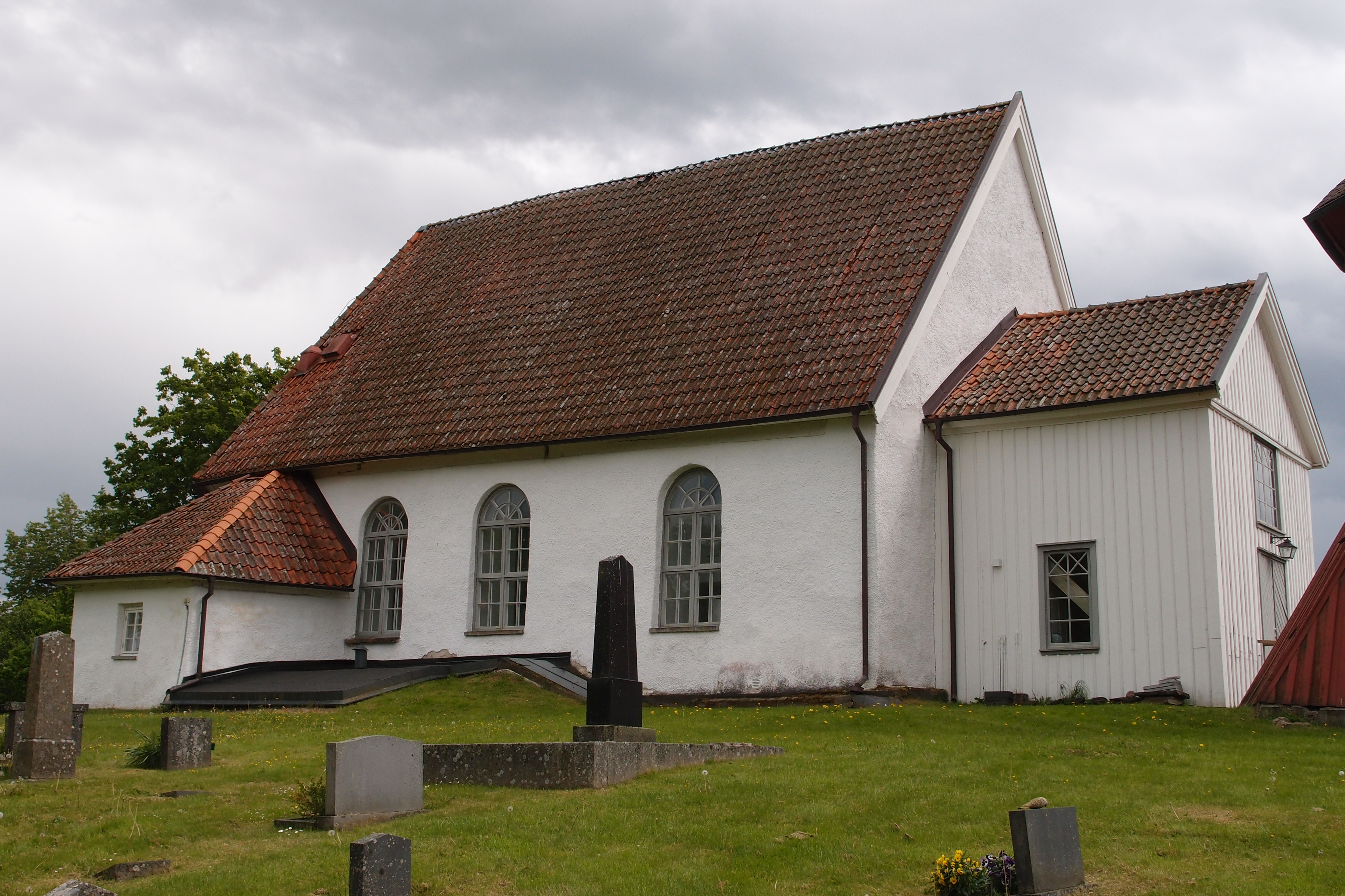 Härna Church